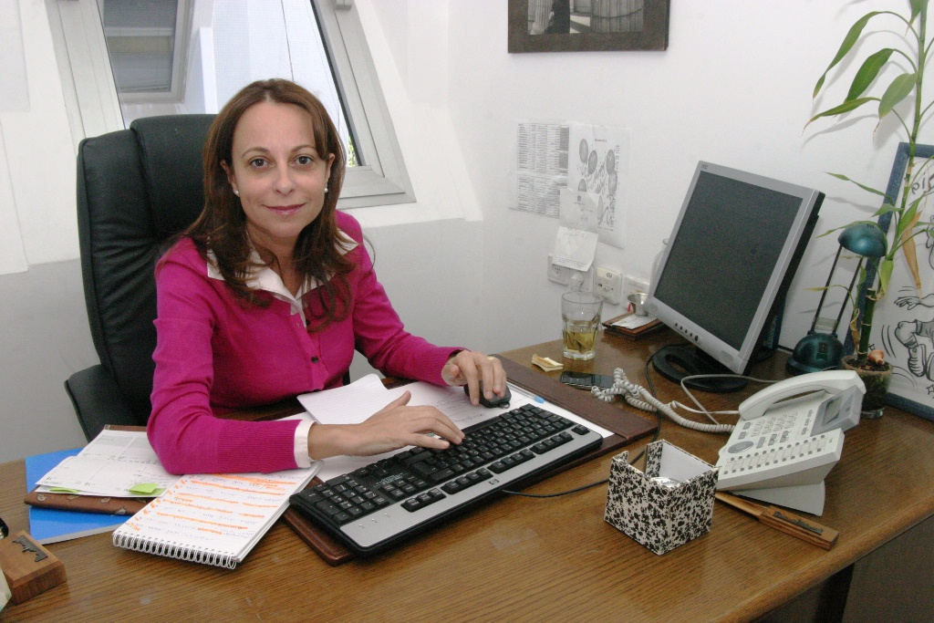 Galit Avishai, CEO of "Emun HaTzibur" Israeli organization promoting honesty in business